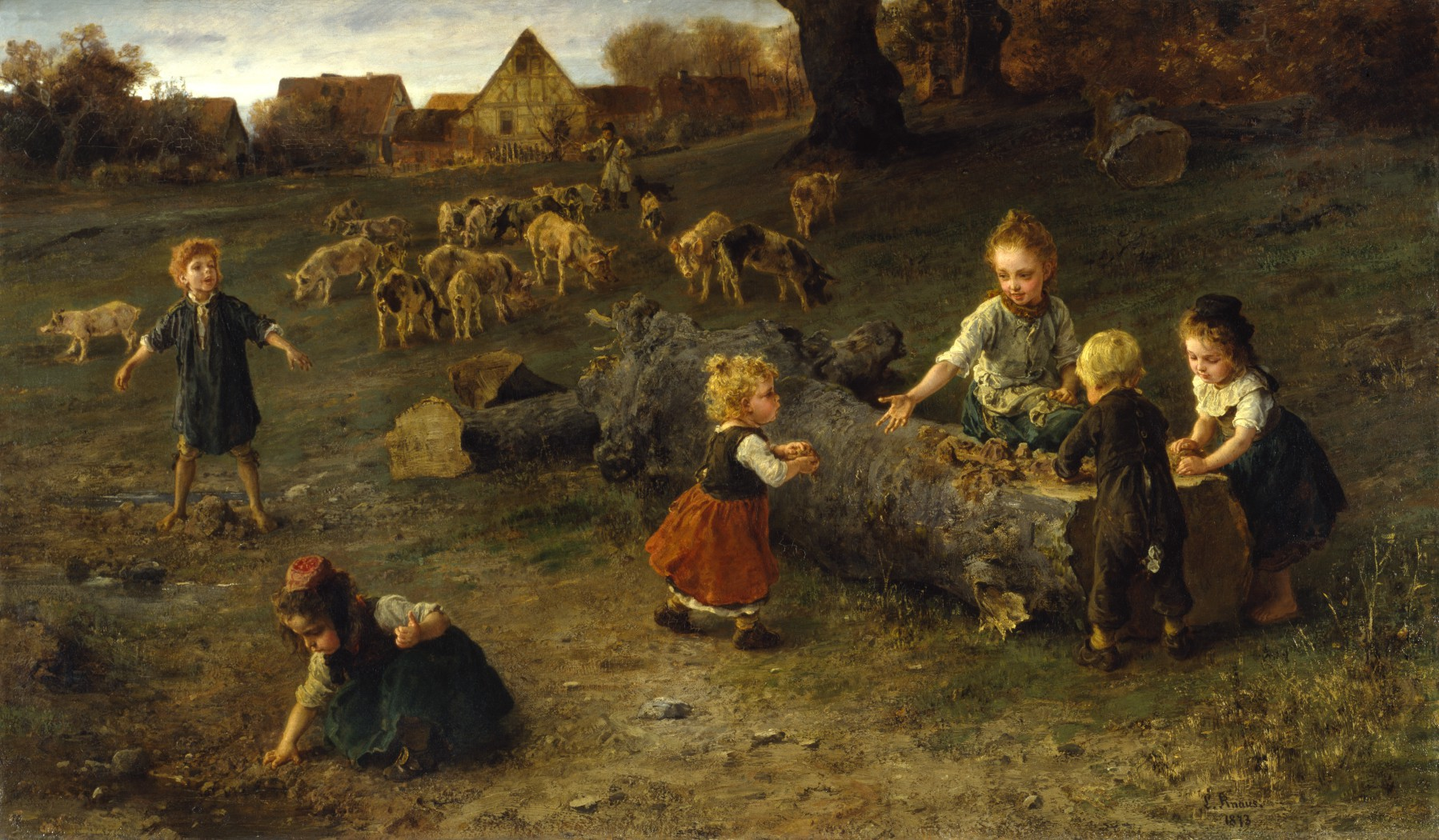 Kids playing and pretending they cook "Sandkuchen" pies, actually with mud.